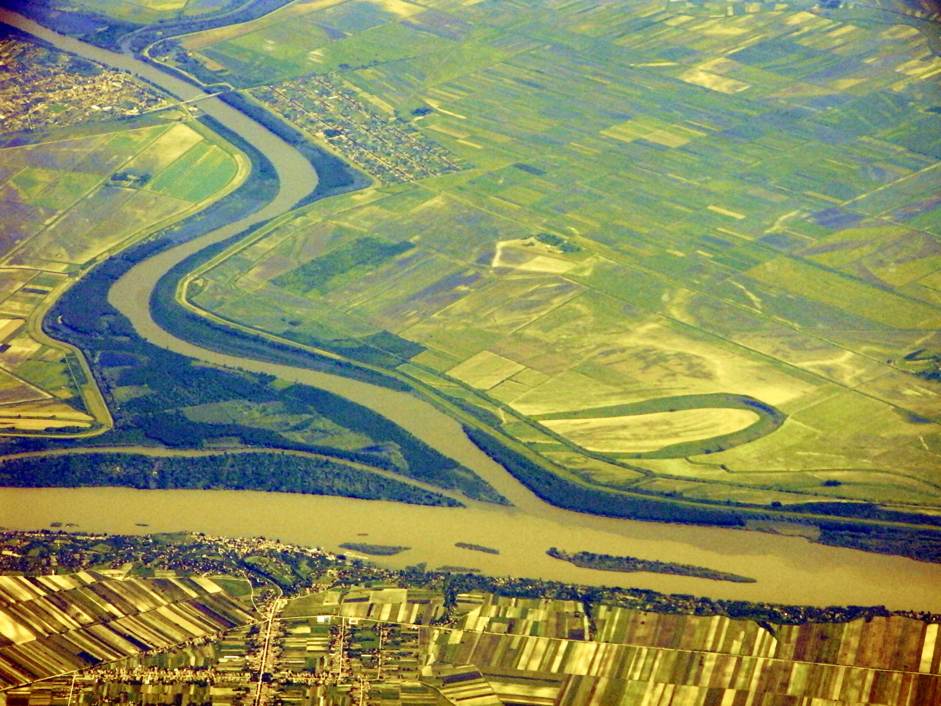 Estuary of Tisa into Danube in Serbia (Vojvodina province) - geographical borders of Bačka, Banat and Syrmia regions and settlements of Titel, Knićanin and Stari Slankamen.